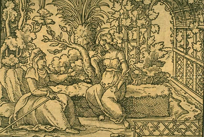 Pomona and Vertumnus. Engraving by Virgil Solis for a 1562 edition of Ovid's Metamorphoses Book XIV, 622-697.